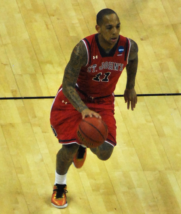 D'Angelo Harrison brings the Ball up for the Red Storm